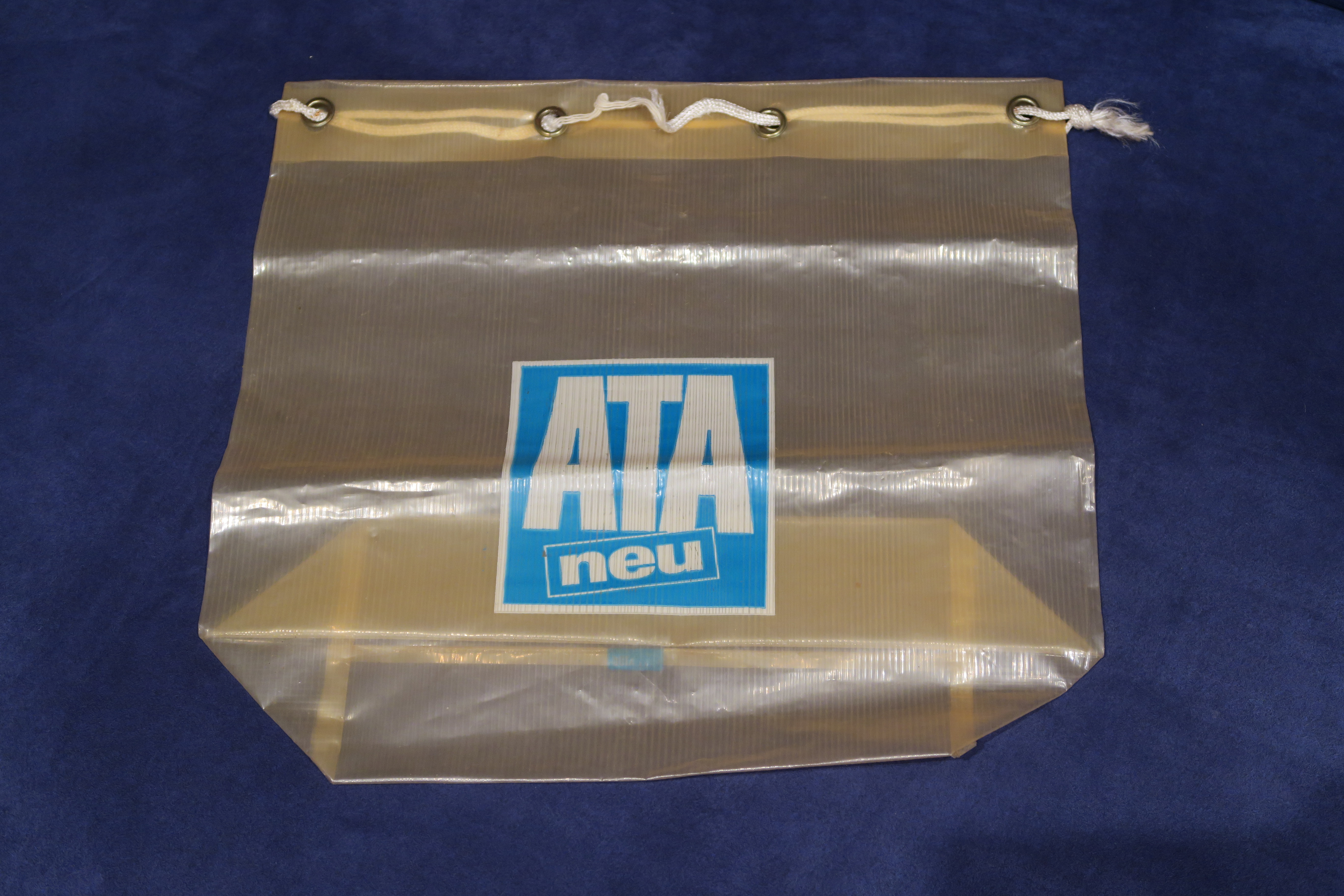 1965 Start Plastic bags Reiterbandtragetasche